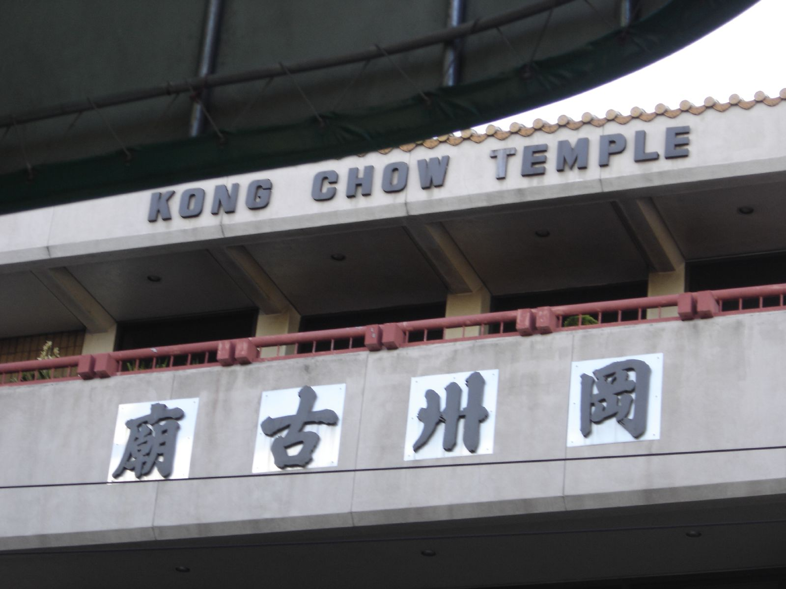 Kong Chow Temple, San Francisco, California